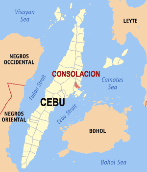 Map of Cebu showing the location of Consolacion